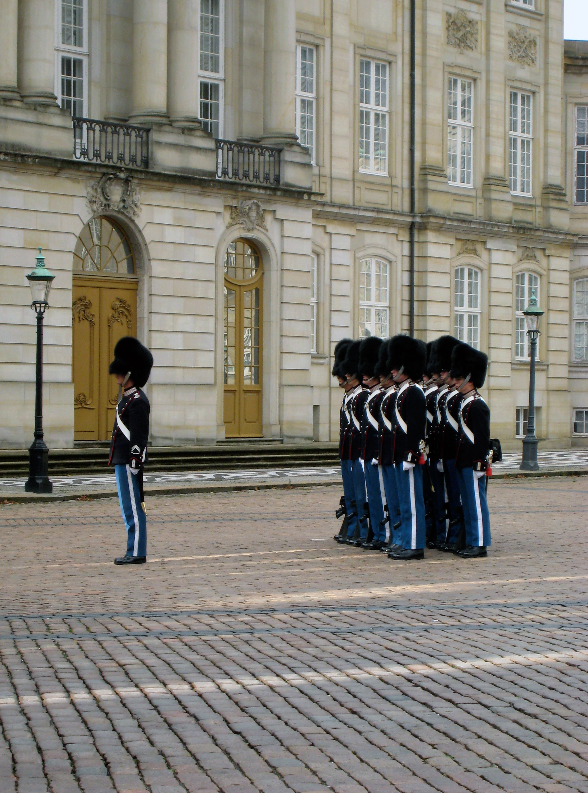 Scene during change of guard at Amalienborg, Copenhagen